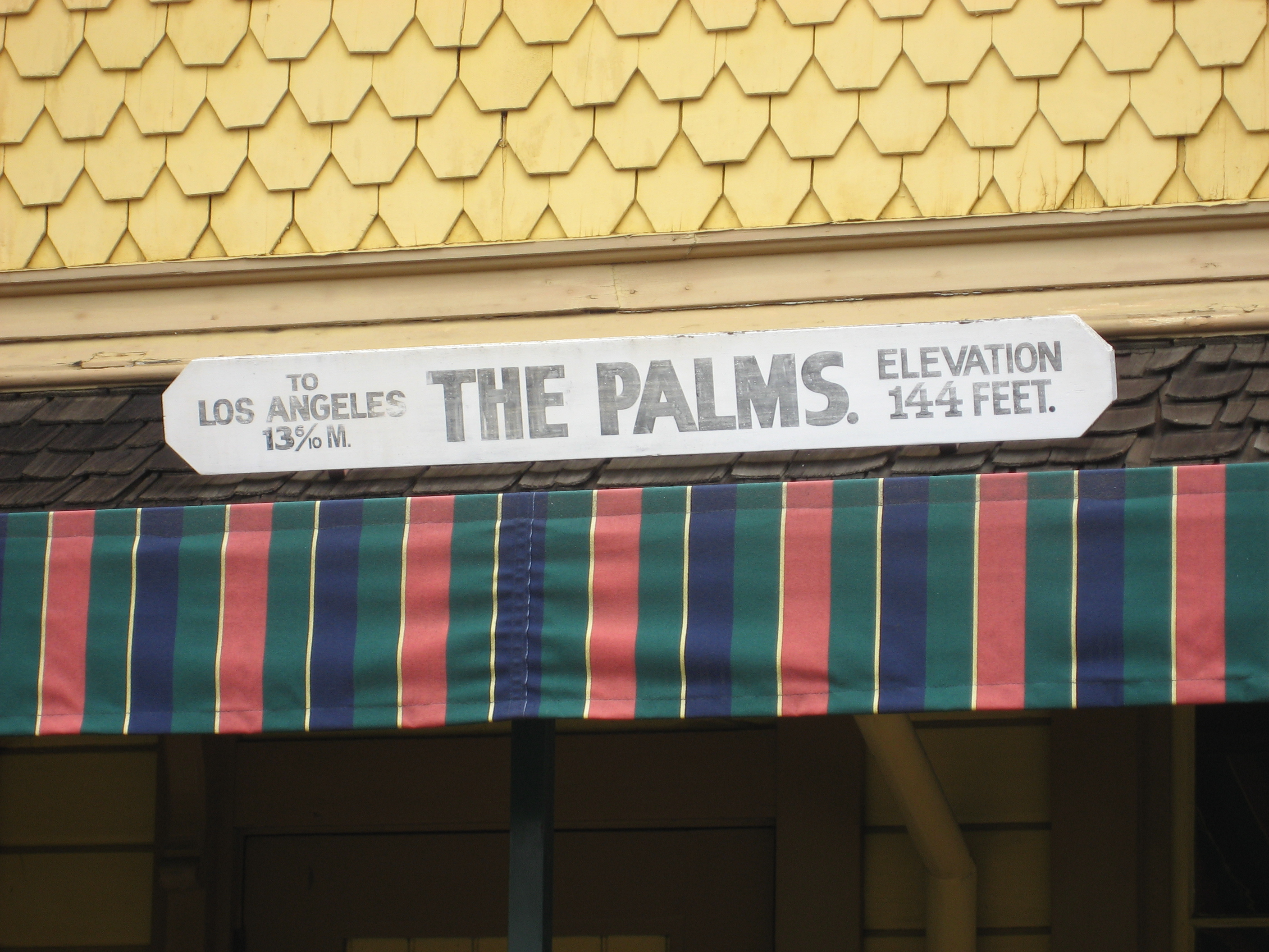 Close-up photo of the Palms Depot train station sign displaying "THE PALMS" in addition to "ELEVATION 144 FEET" and "TO LOS ANGELES 13 6/10 M." Sign is attached to the original Palms Depot, which was built circa 1875 in Palms (West Los Angeles) for the Los Angeles and Independence Railroad, and was absorbed into the Pacific Electric Railway in 1911. The Eastlake style of Victorian Queen Anne architecture train station is a Los Angeles Historic-Cultural Monument. Now located at the open air Heritage Square Museum (with 7 other historic buildings), in the Arroyo Seco (3800 Homer Street), Los Angeles. This sign was repainted in 1982 by Walt Disney artist Ward Kimball. Source: George Garrigues, Los Angeles's The Palms Neighborhood, (Arcadia Press), page 26, ISBN:978-0-7385-6993-2.